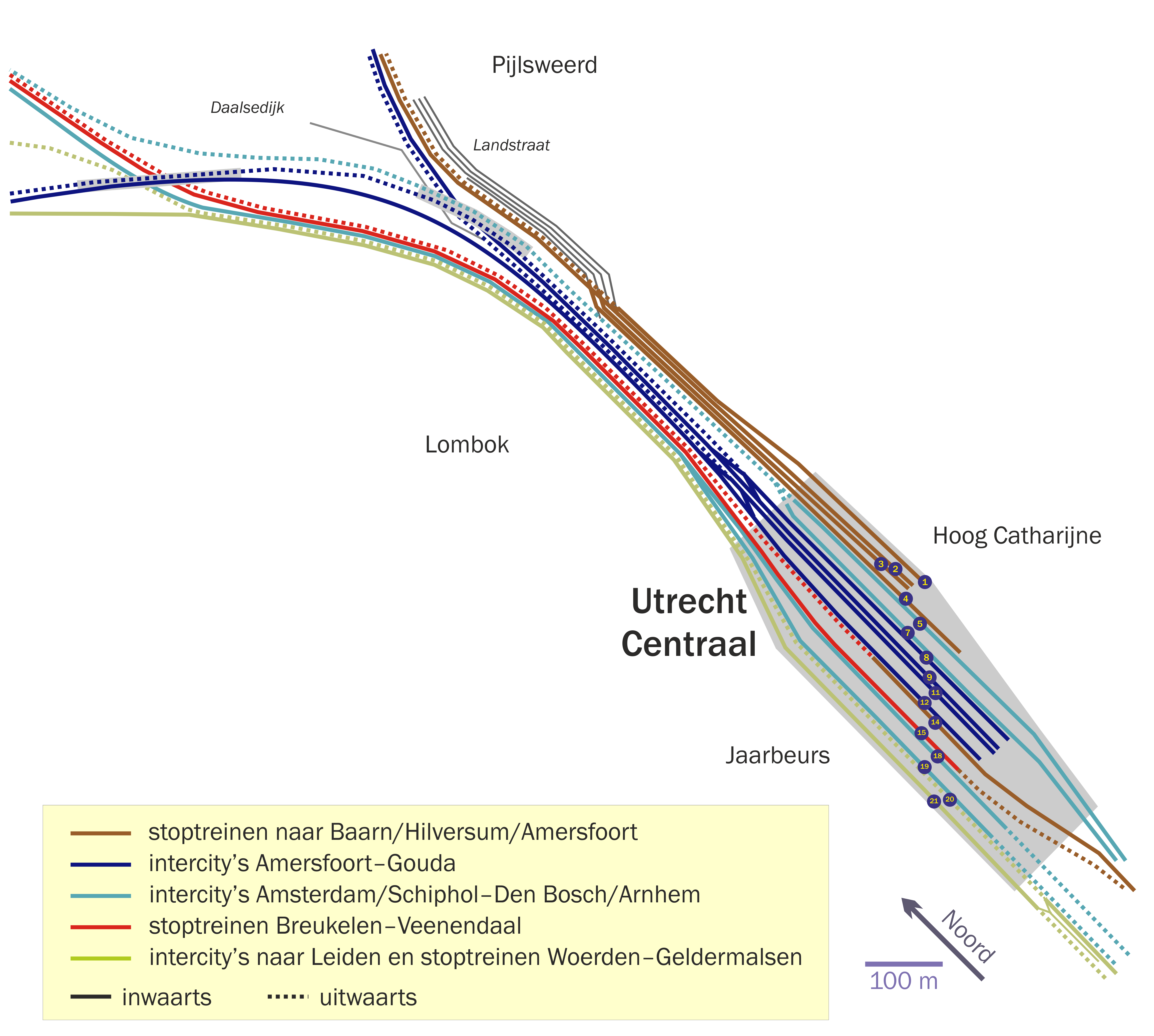 Organisation of Utrecht Centraal station, the Netherlands, after the Doorstroomstation Utrecht project (2013-2016) showing separated use of approaching tracks and platforms.